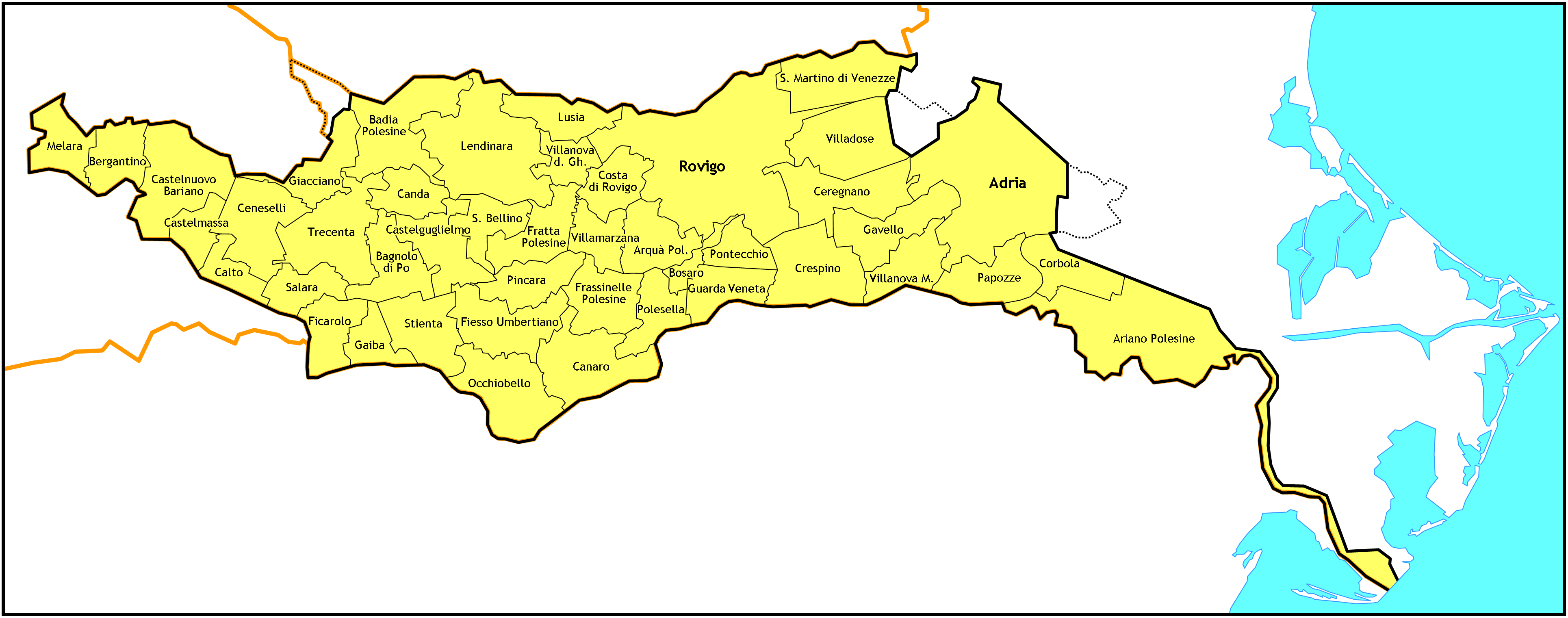 Map of Adria's Diocese